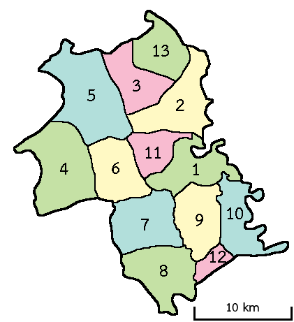 Subdistricts of Phanon Phrai